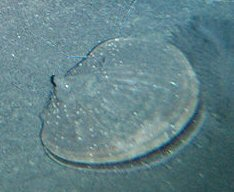 Adamussium colbecki, the Antarctic scallop. This photo was taken in the Ross Sea, Antarctica, under 5 meters of sea ice. An underwater field guide to McMurdo Sound is available at